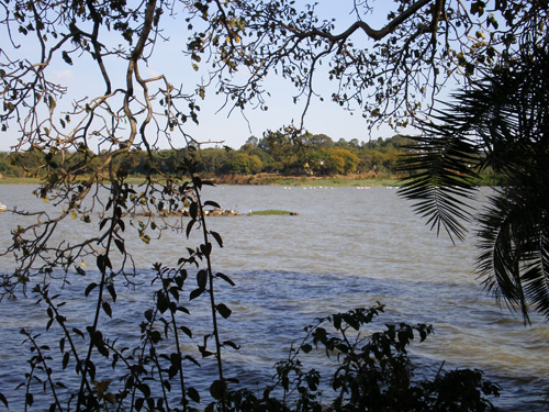 View on Lake Tana, Bahir Dar, Ethiopia